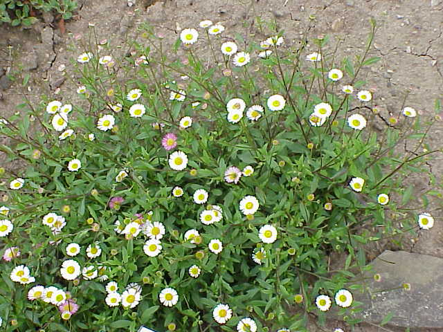 Species: Erigeron karvinskianus Family: Asteraceae Image No. 2